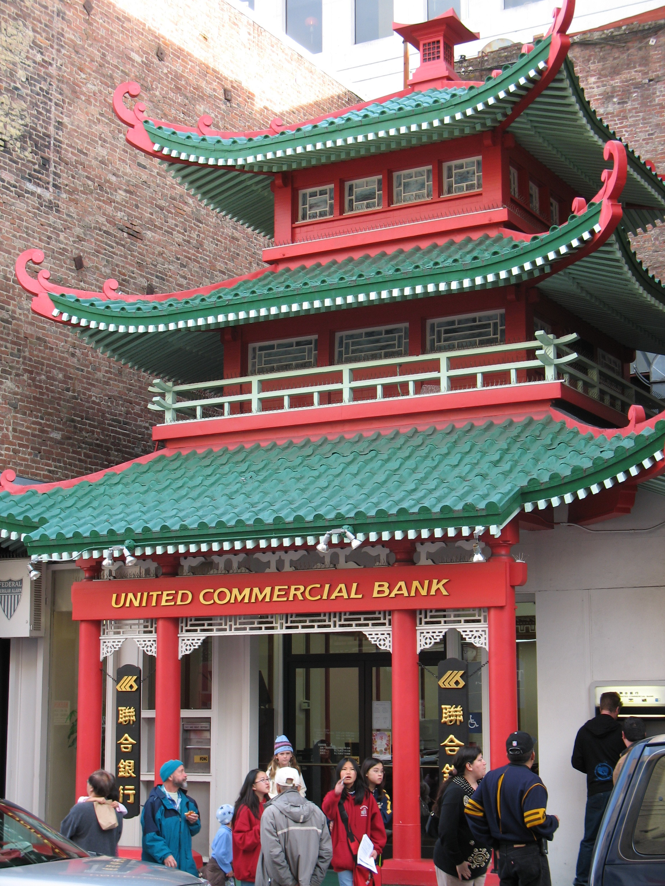 The United Commercial Bank. Chinatown, San Francisco